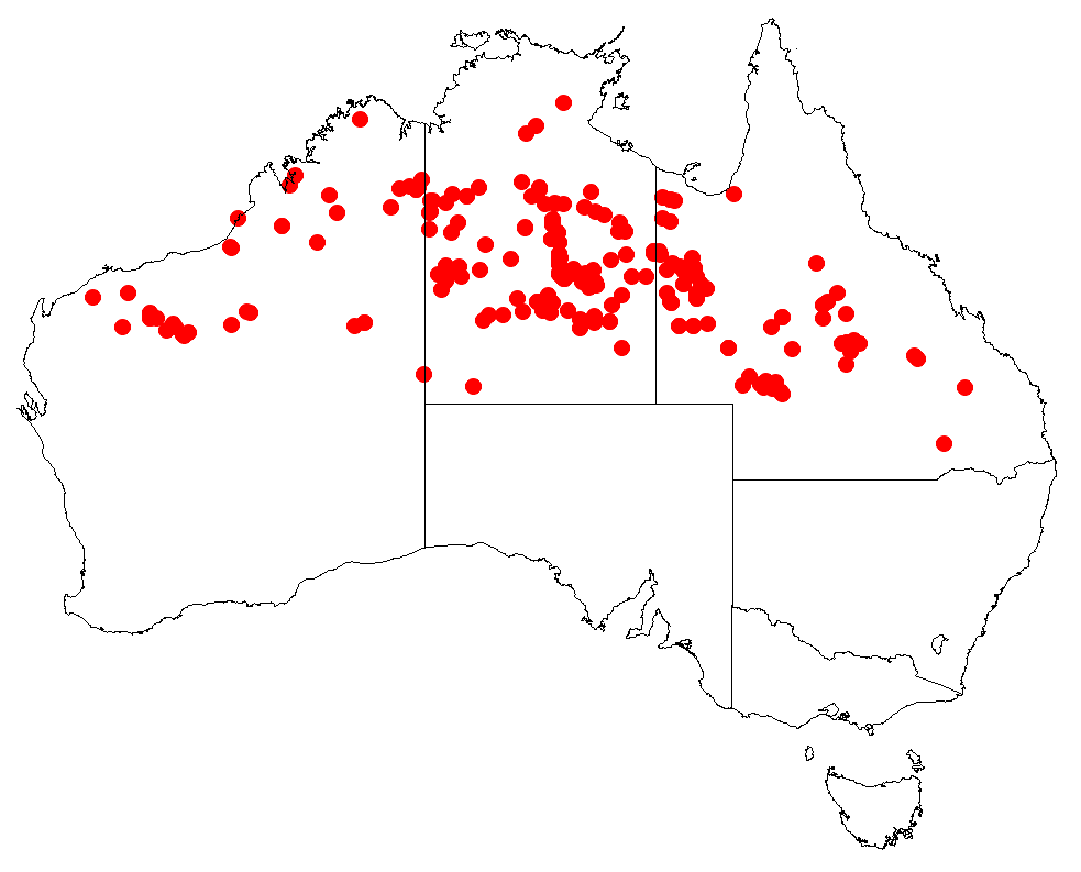 Hakea chordophylla Occurrence data downloaded from Australasian Virtual Herbarium on 22 November 2018 using